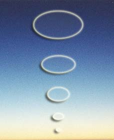 Illustration of the mental process called "transcendence" during the practice of Transcendental Meditation